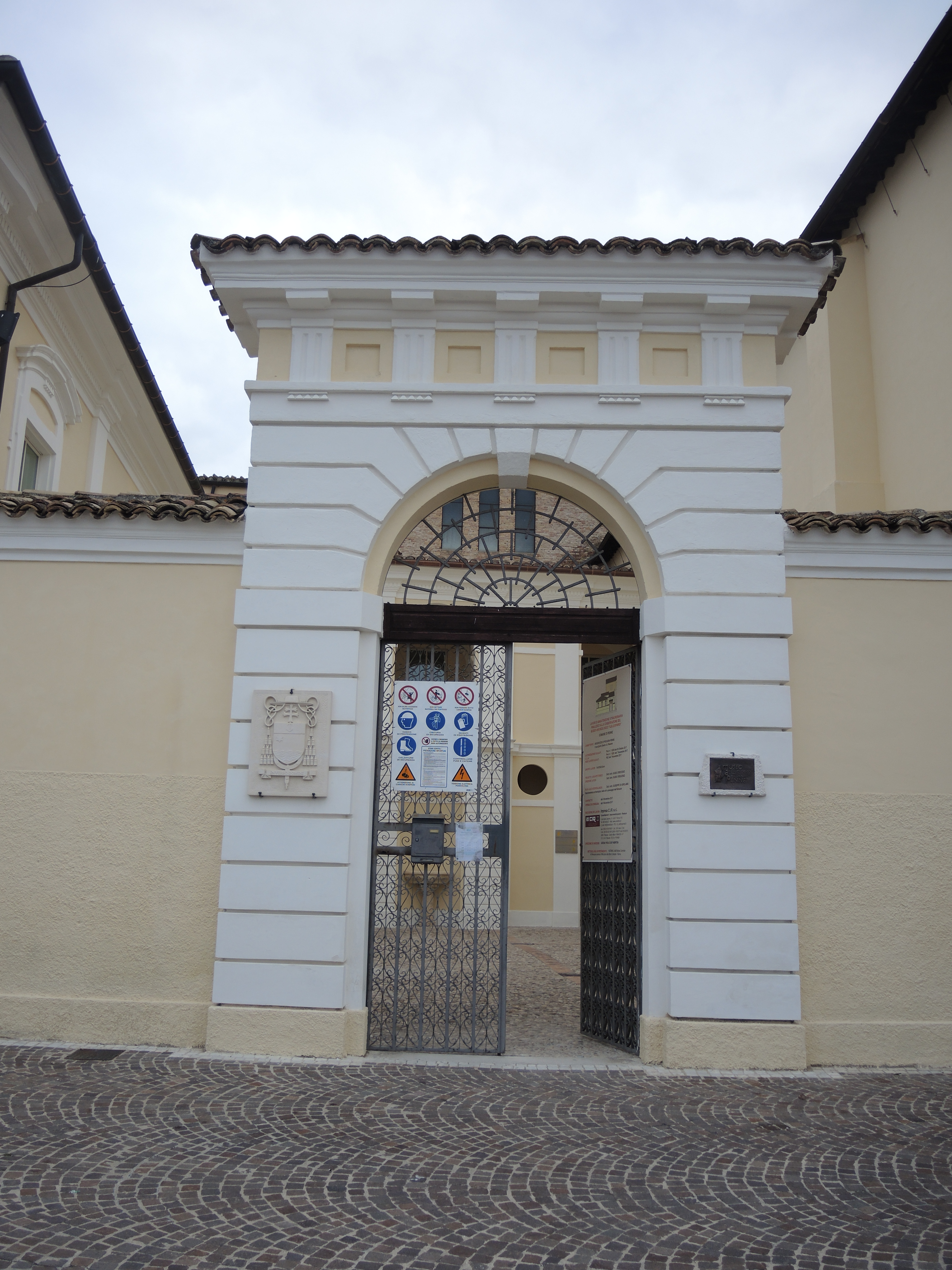 Penne: Museo Archeologico Civico e Diocesano Giovanni Battista Leopardi